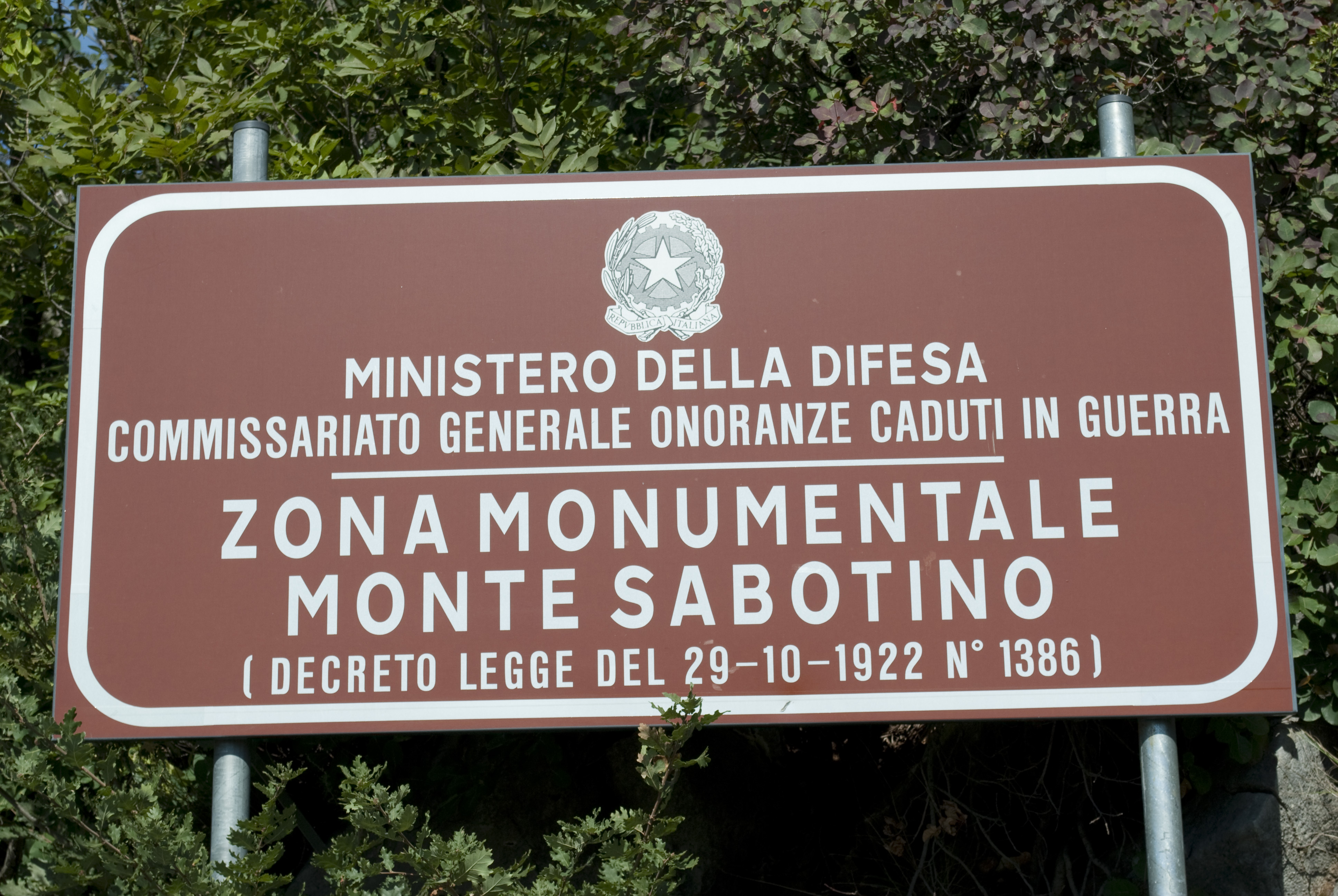 a part of Sabotino